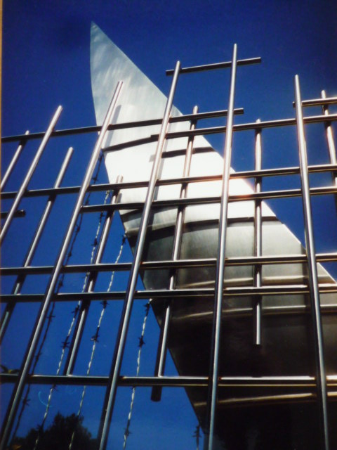 Hampered Wing. Jean Yves Lechevallier